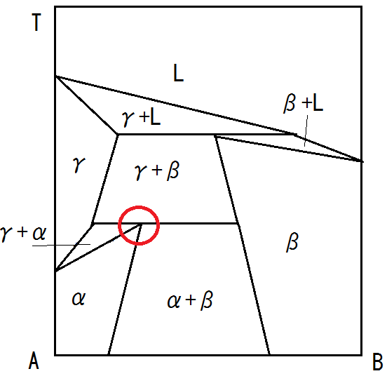 Peritectoid phase diagram